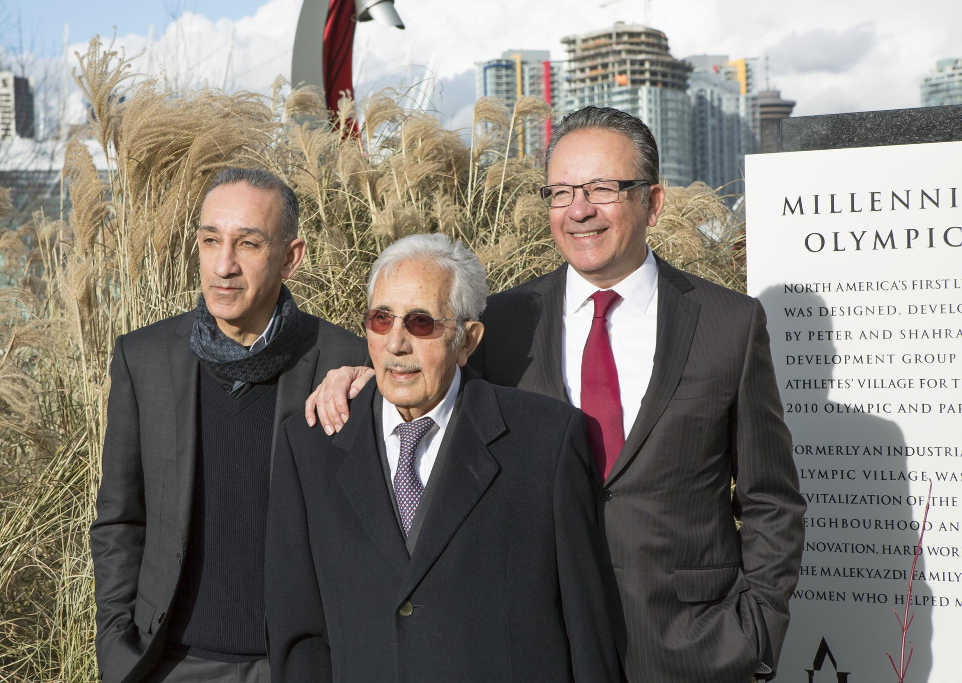 Millennium Water plaque unveiling, Shahram, Amir and Peter from left to right.